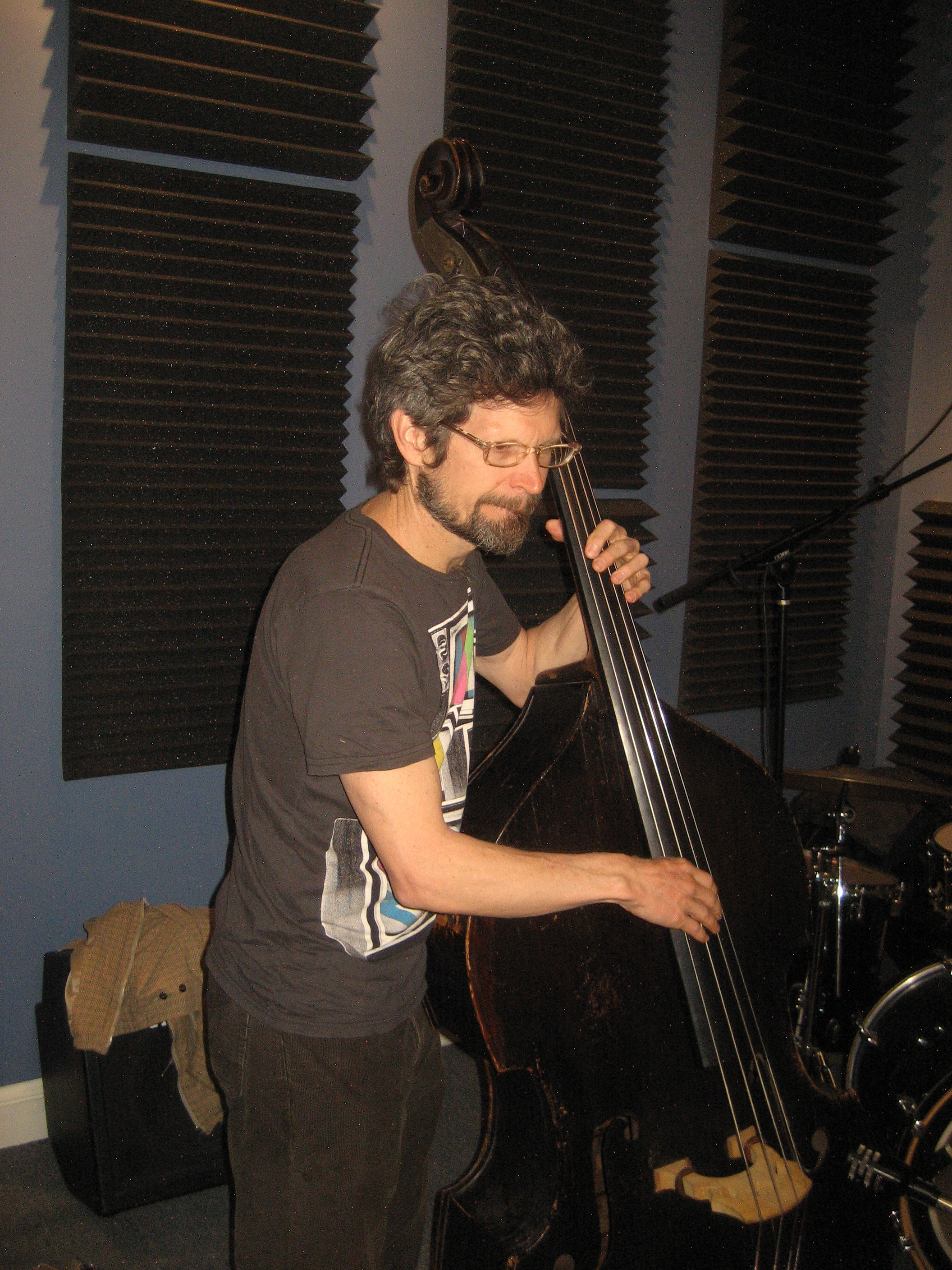 Fund drive time at community supported radio station WWOZ, New Orleans. James Singleton playing in the studio.